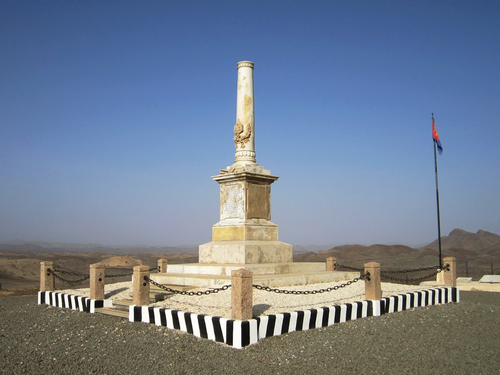 This monument at Dogali, 30 kilometers west of Massawa, Eritrea, recalls an 1887 battle in which a column of 500 Italian troops was wiped out by the Ethiopians.